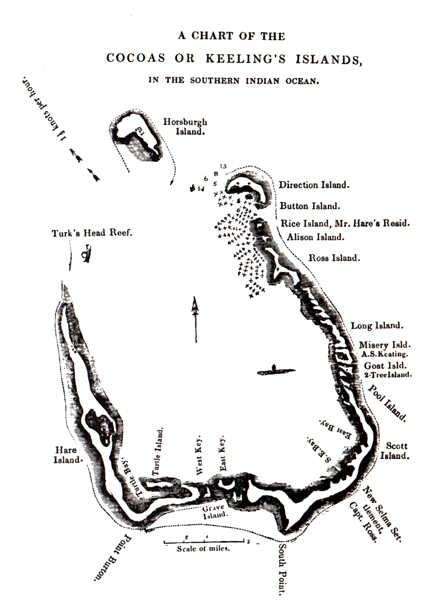 "A Chart of the Cocoas or Keeling's Islands, in the Southern Indian Ocean."